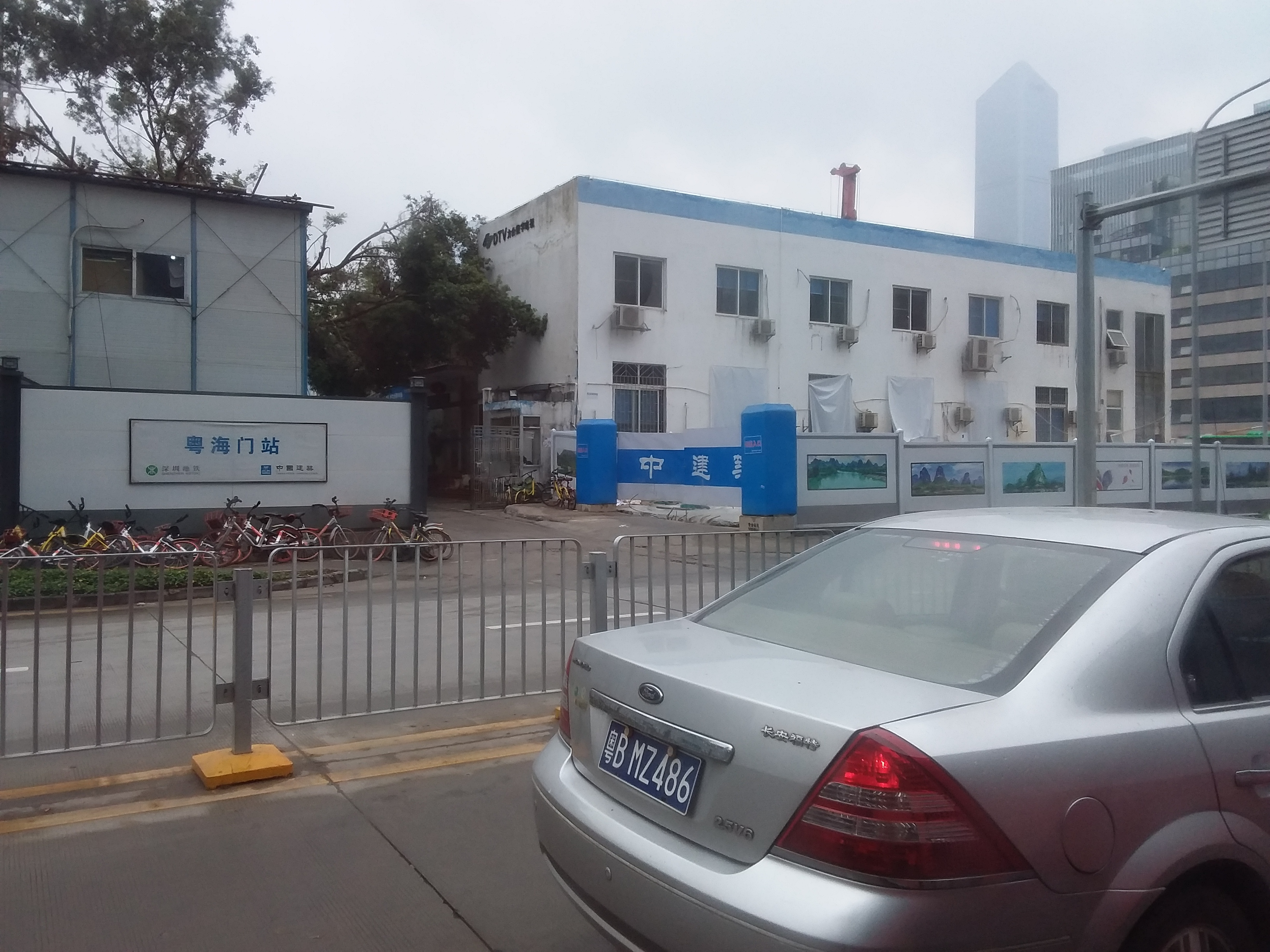 SZ 深圳 Shenzhen Bus M123 view Nanshan to 福田 Futian District in January 2019